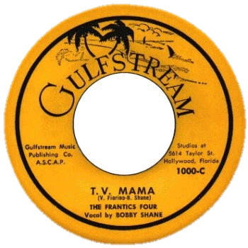 TV Mama by the Frantics Four, Gulfstream Records 1960.